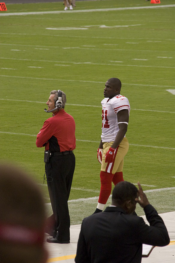 Frank Gore awaits the start of the game on September 13, 2009